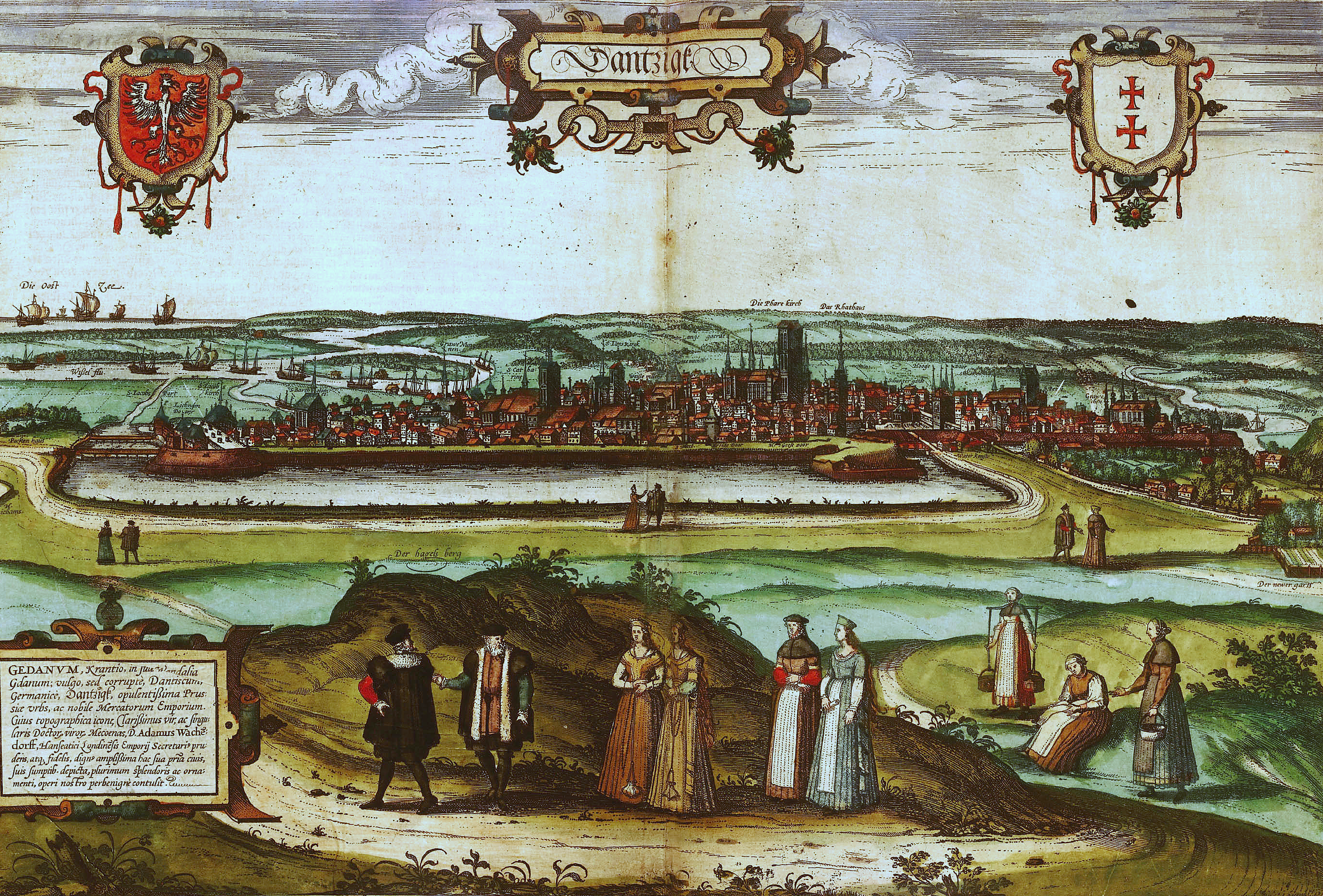 View of Gdańsk win 1575.